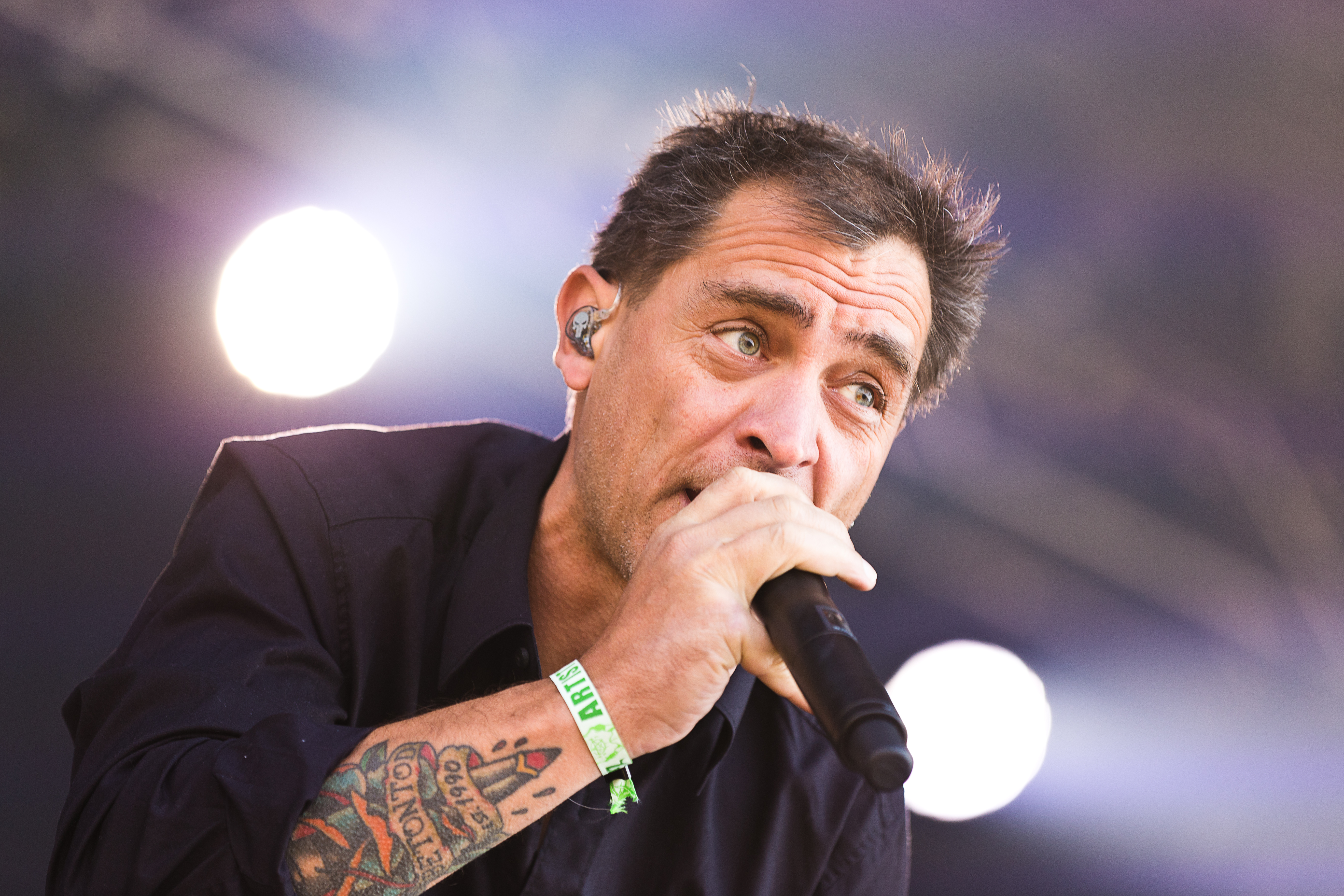 The German punk rock band Betontod at the Rockharz Open Air 2015 in Ballenstedt/Germany.